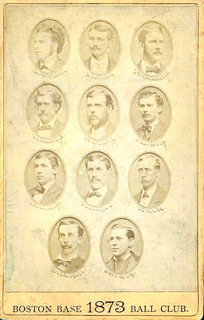 1873 Boston Red Stockings team picture: finished first with a record of 43-16 Captioned As { }